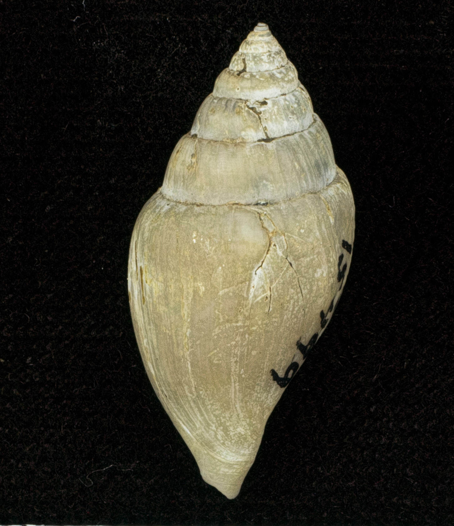 Hypotype specimen of Mitra washingtoniana, Eocene, Cowlitz Formation; Vader, Lewis County, Washington University of California Museum of Paleontology Specimen 15499